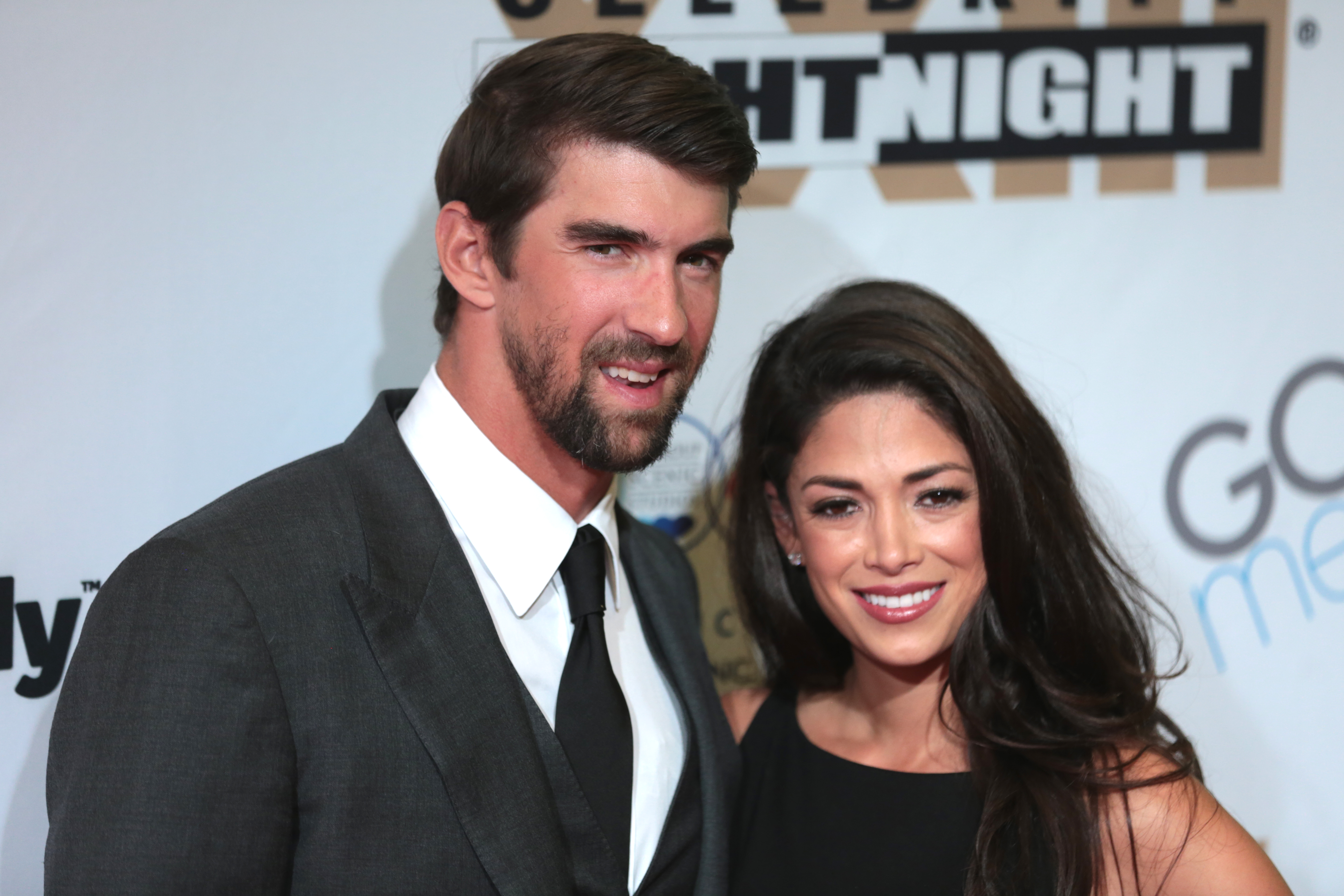 Michael Phelps and Nicole Johnson on the red carpet at Celebrity Fight Night XXIII at the JW Marriott Desert Ridge Resort & Spa in Phoenix, Arizona.